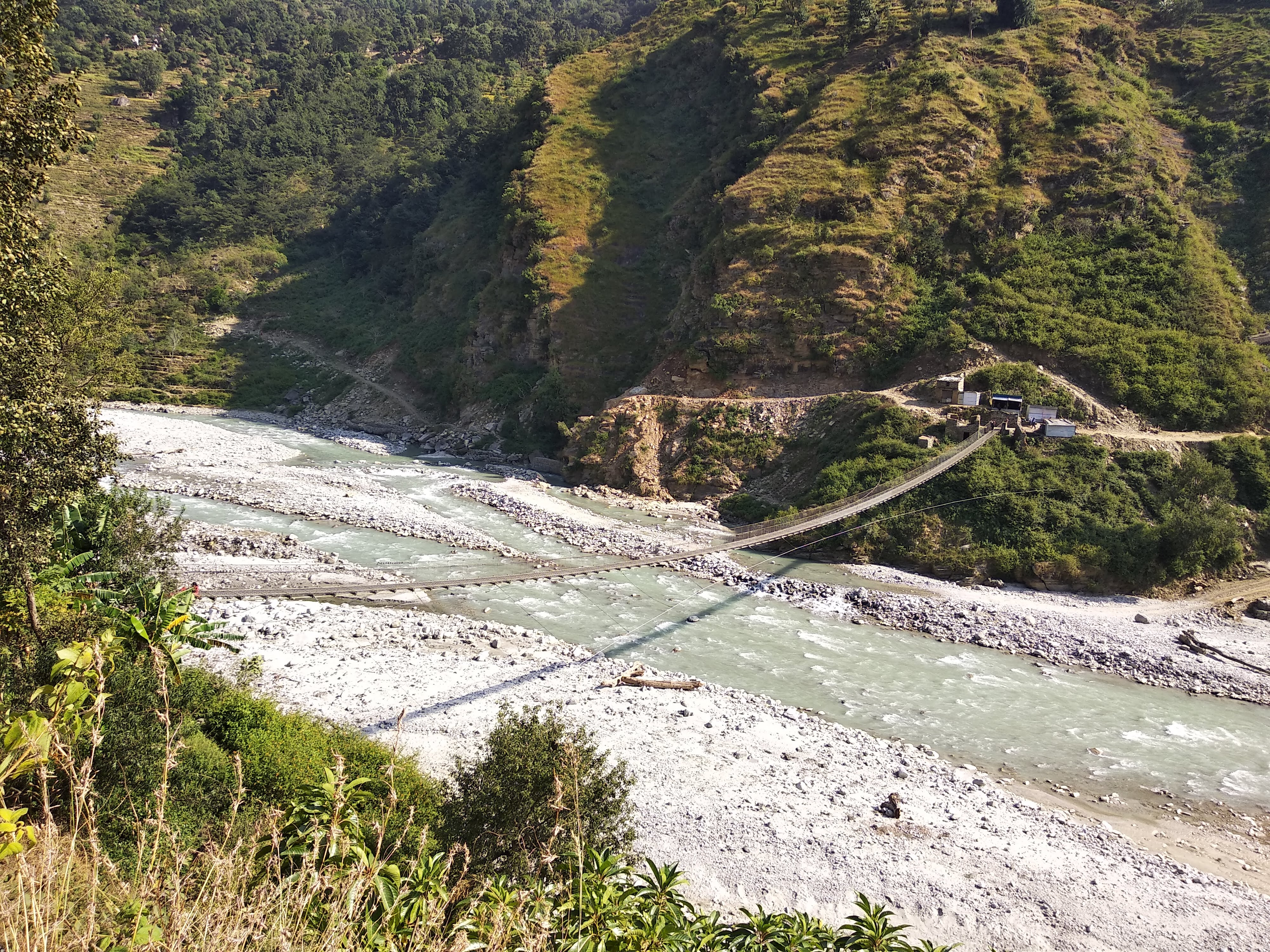 Maure bridge connects Maure Kailashmandu & Maure-Toli -Chhatara section